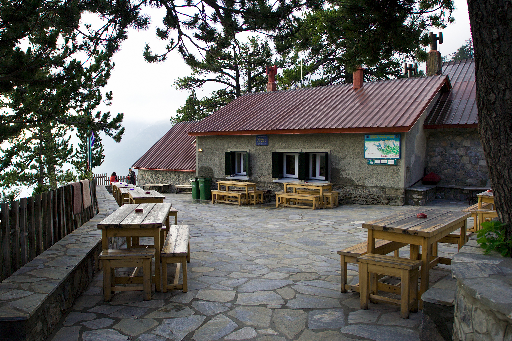 Spilios Agapitos (Refuge A) alpine hut, mount Olympos, Greece